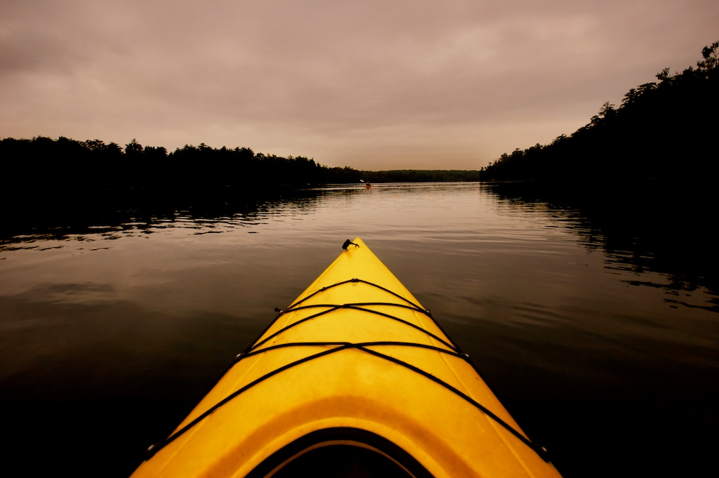 View from a kayak on Ganoga Lake in Colley Township, Sullivan County, Pennsylvania in the United States.